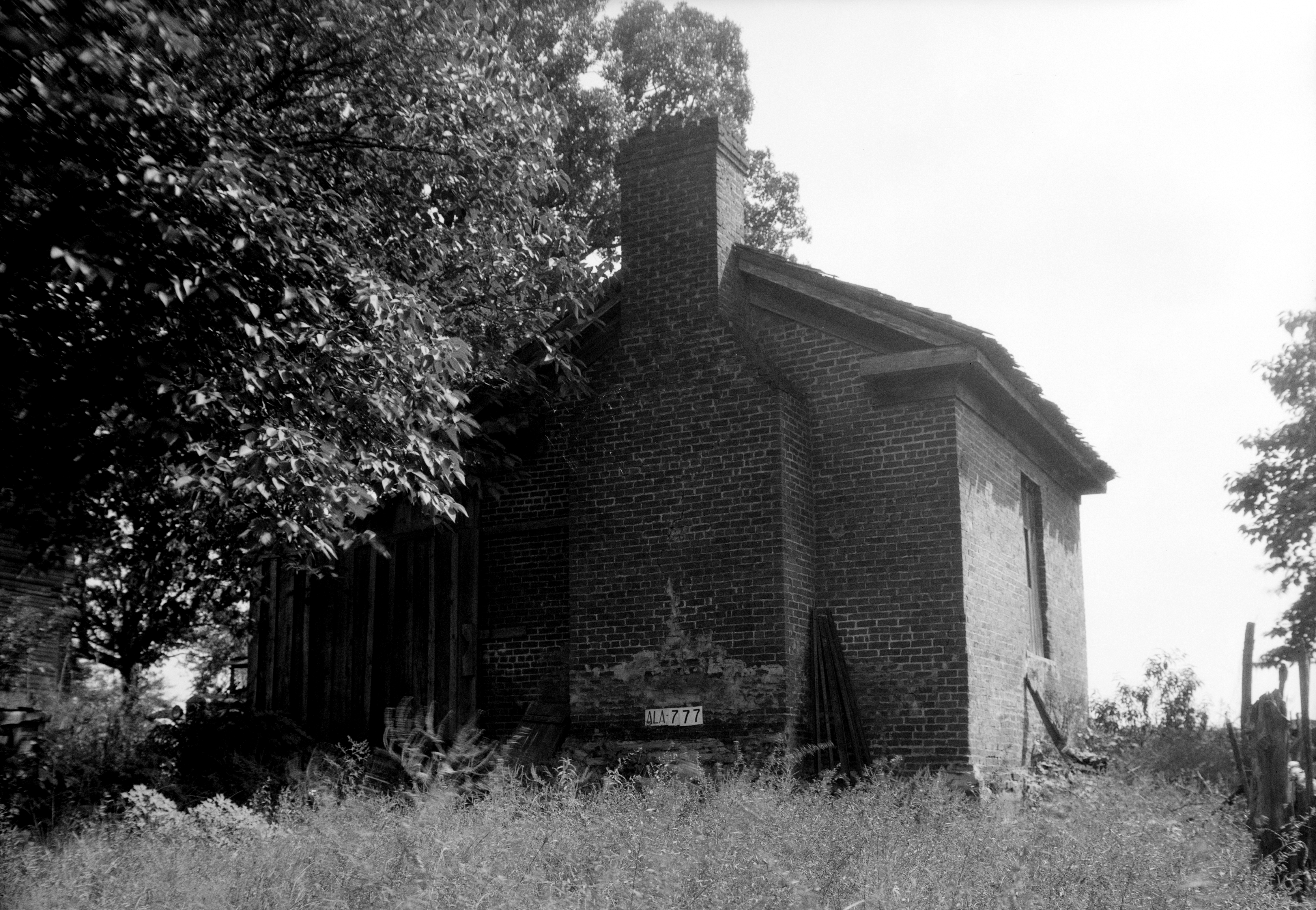 Lowry-Ford-Henry House & Kitchen (photo of kitchen), Washington Street (County Road 45), Marion vicinity, Perry, AL. Now known as the Henry House and listed on the National Register of Historic Places